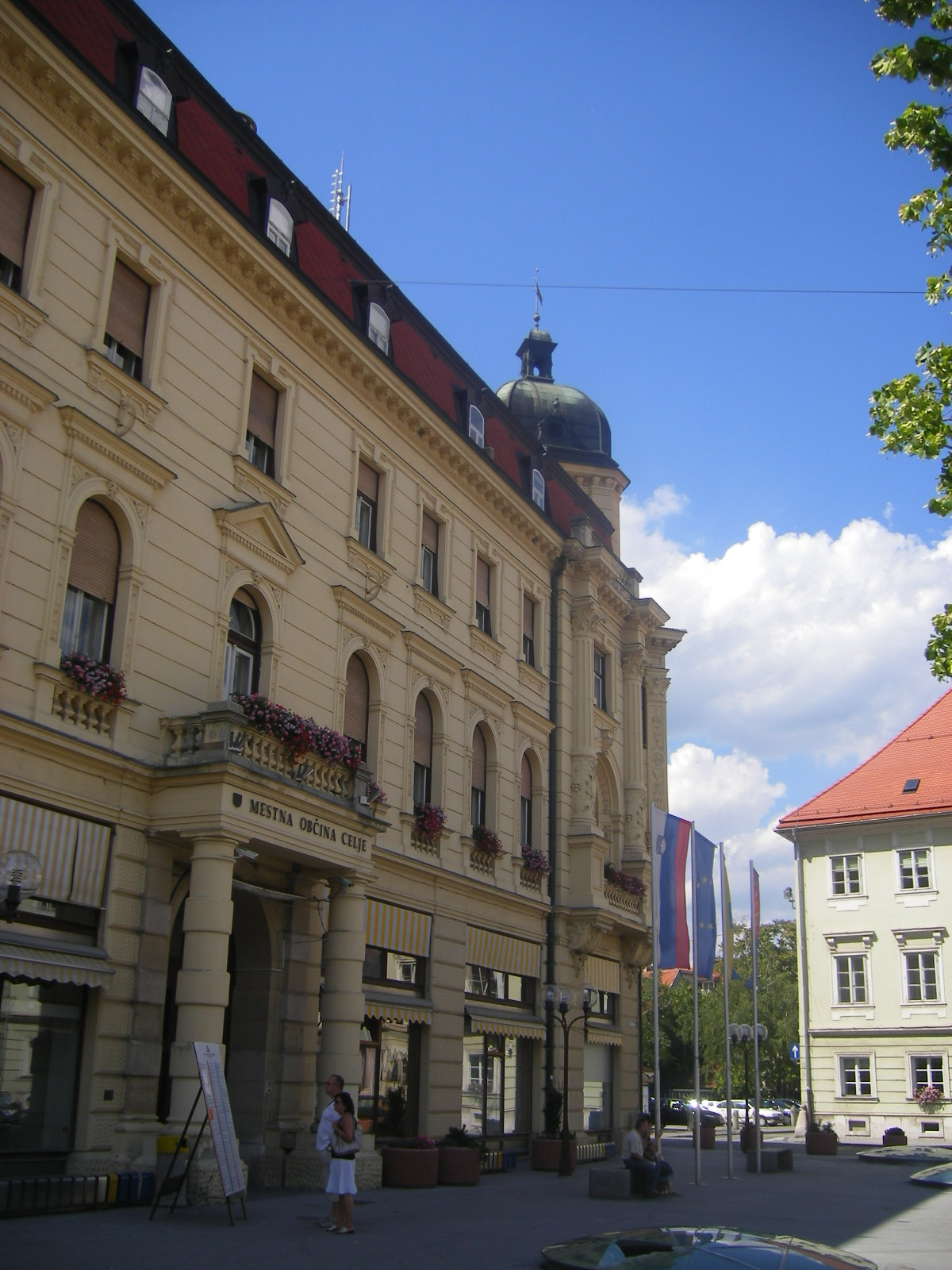 The National Hall in Celje.